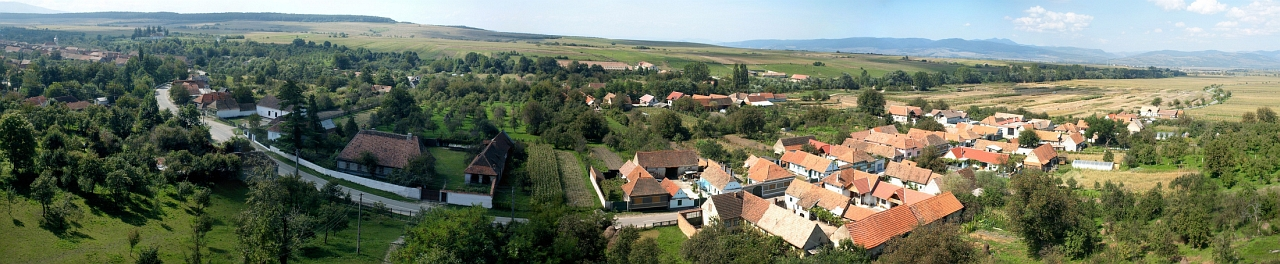 Panorama Image of Romos (Rumes), Transylvania, Romania